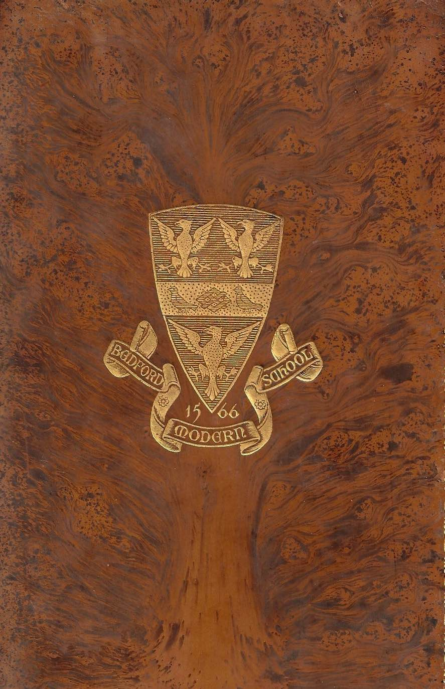 Prize book awarded by Canon R.B. Poole to M.A. Peer for Divinity, Bedford Modern School, Midsummer 1889